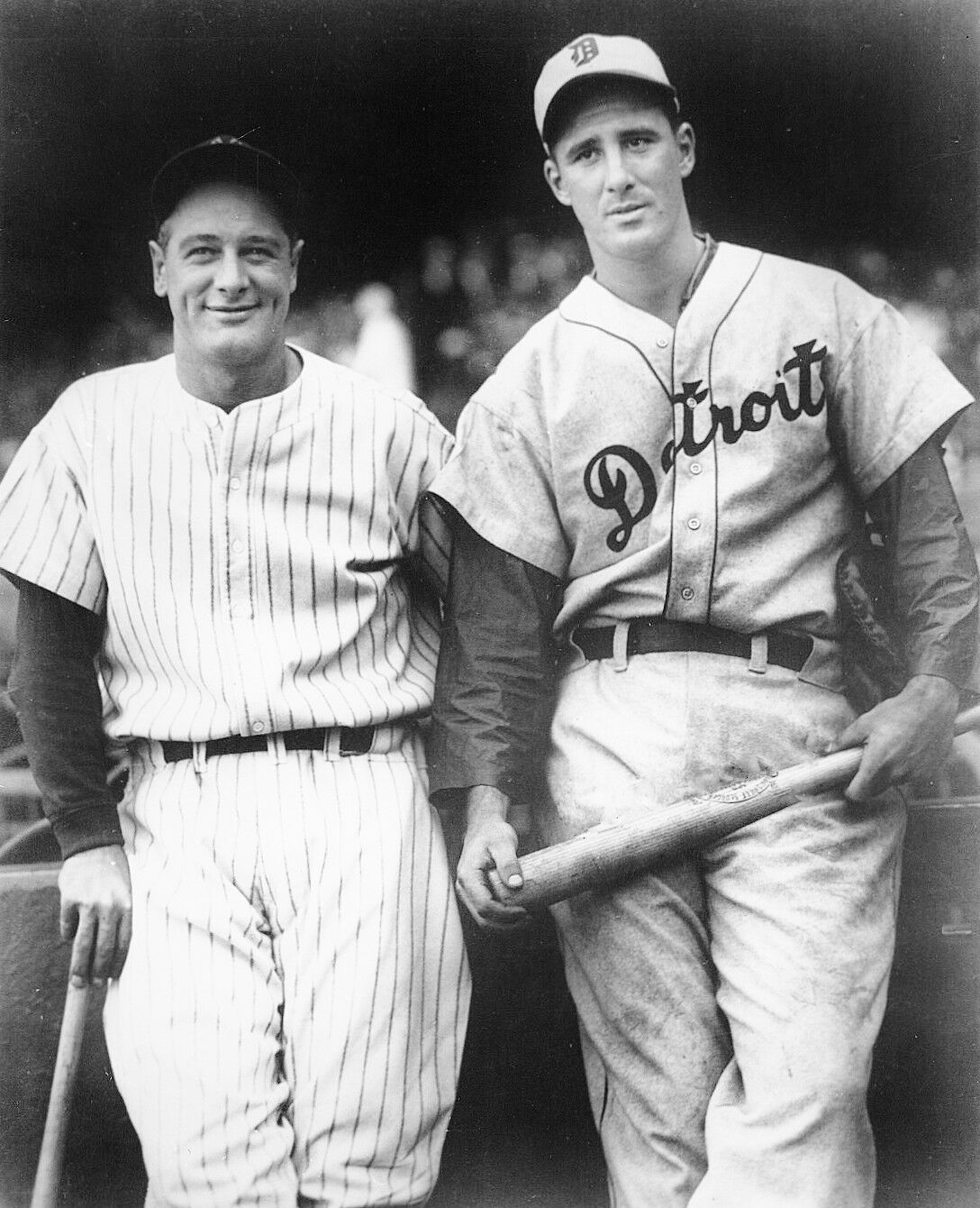 Baseball legends Lou Gehrig and Hank Greenberg